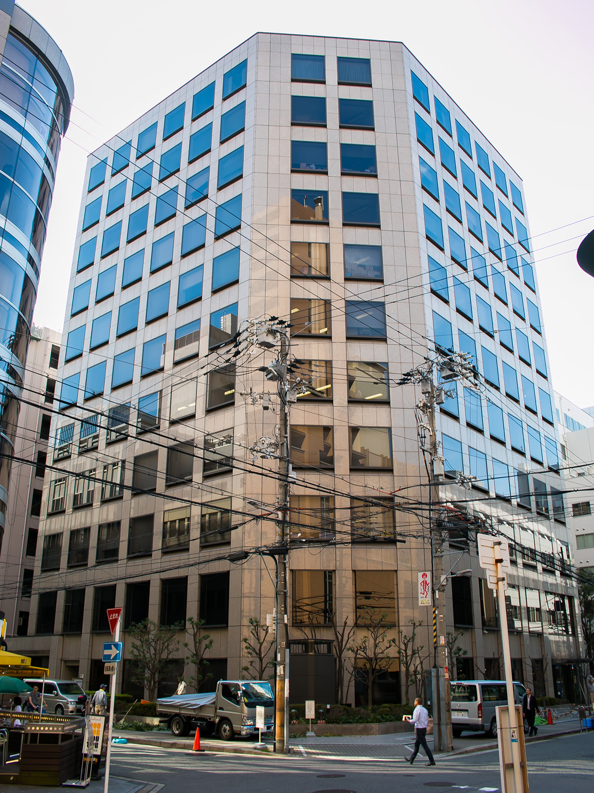 Headquarter of Tamurakoma